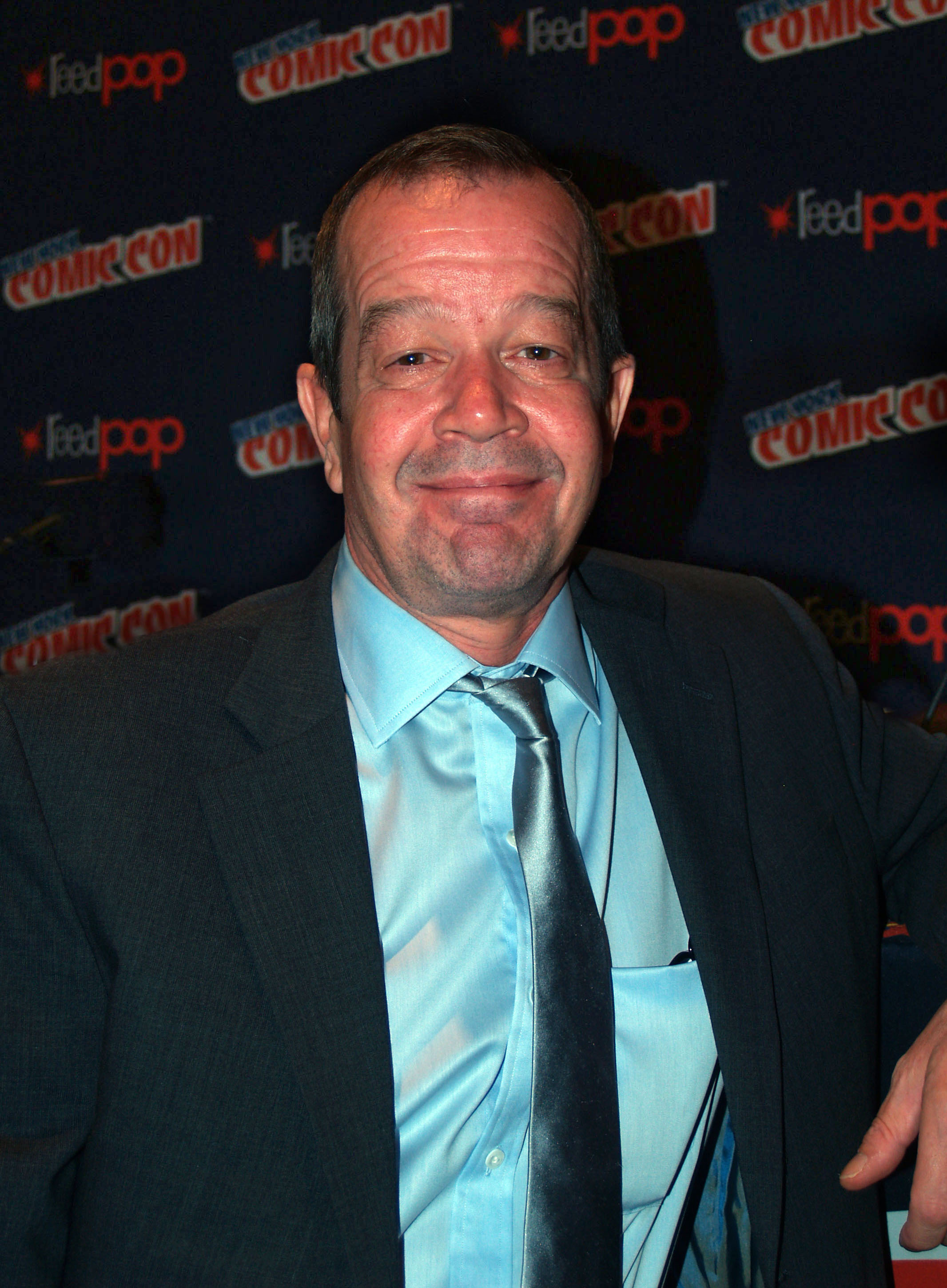 Comics writer/artist Darwyn Cooke at the Saturday IDW Publishing panel, at the Jacob K. Javits Convention Center in Manhattan, on Saturday October 12, 2013, Day 3 of the 2013 New York Comic Con. This photo was created by Luigi Novi. It is not in the public domain, and use of this file outside of the licensing terms is a copyright violation.